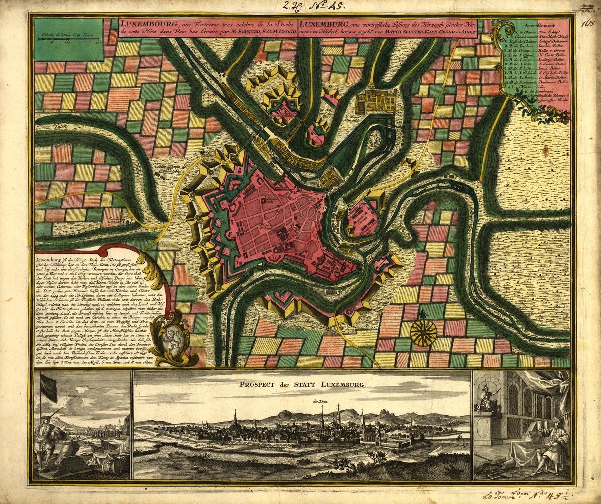 Map of Luxembourg City around 1730 by Matteus Seuter, a map publisher from Augsburg, Germany. It was published in his Grosser Atlas in 1734.